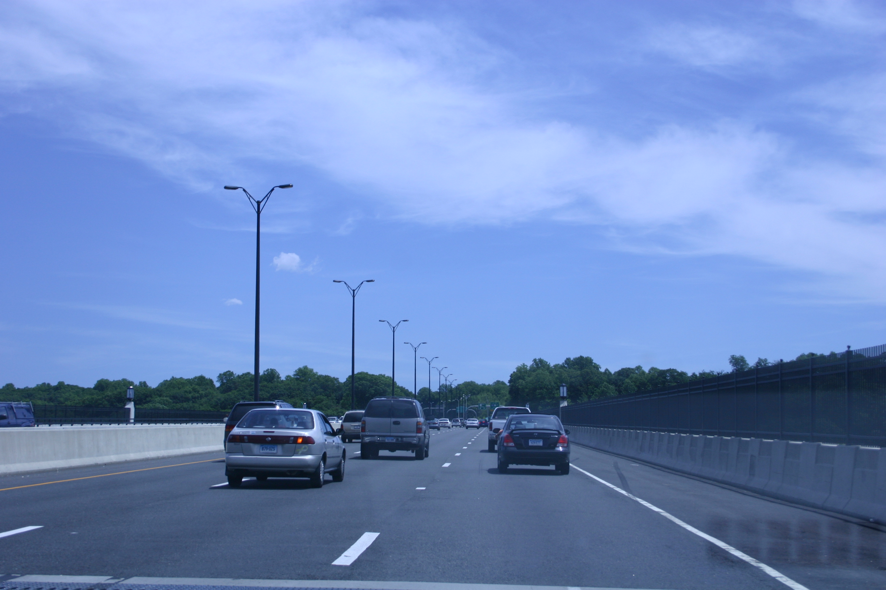 The new Igor Sikorsky Memorial Bridge in June 2007. This bridge, which replaces a steel structure built in 1940, was completed in November 2006.